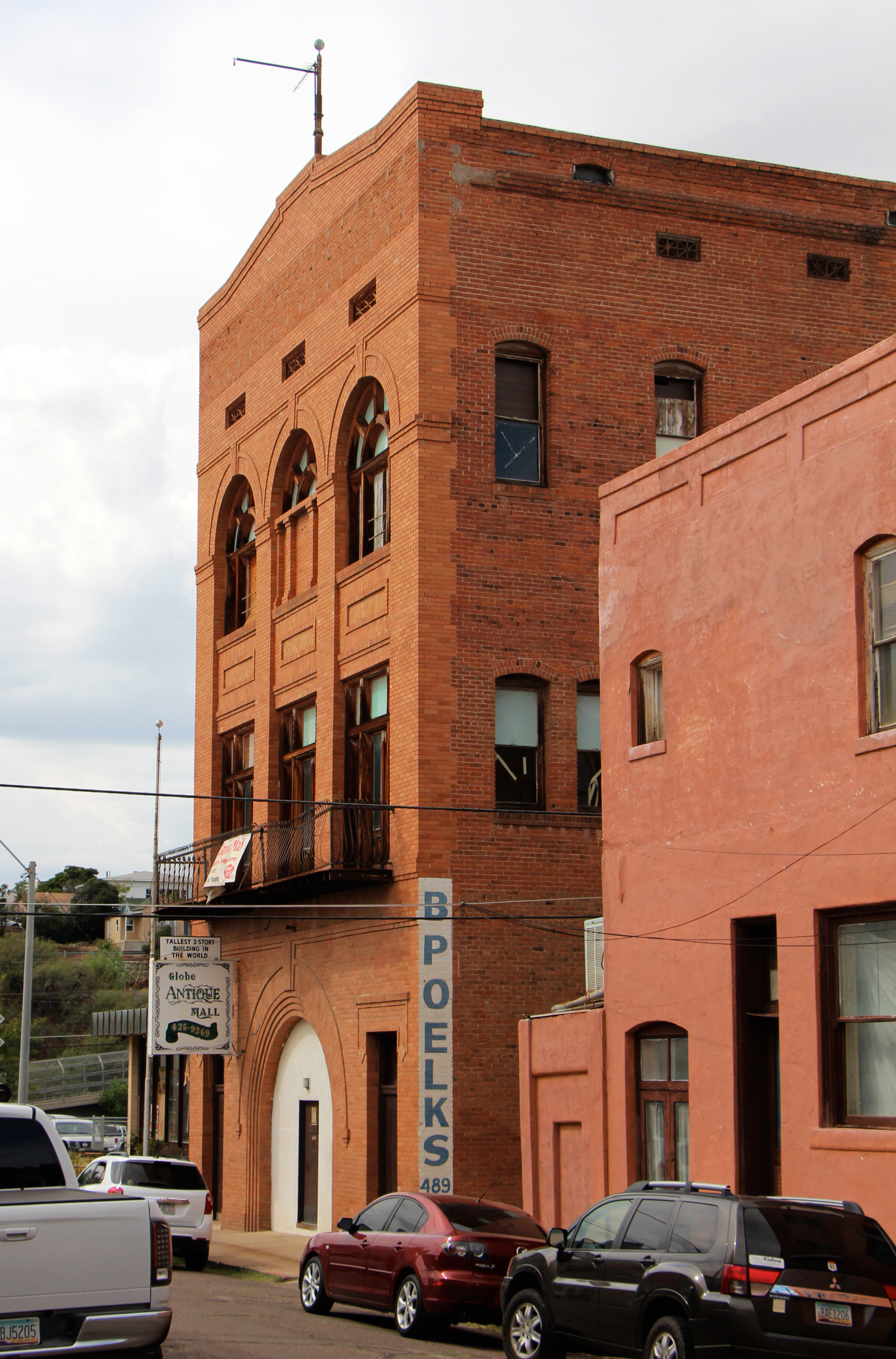 Elk's Building, corner of Bailey Street and Mesquite Street